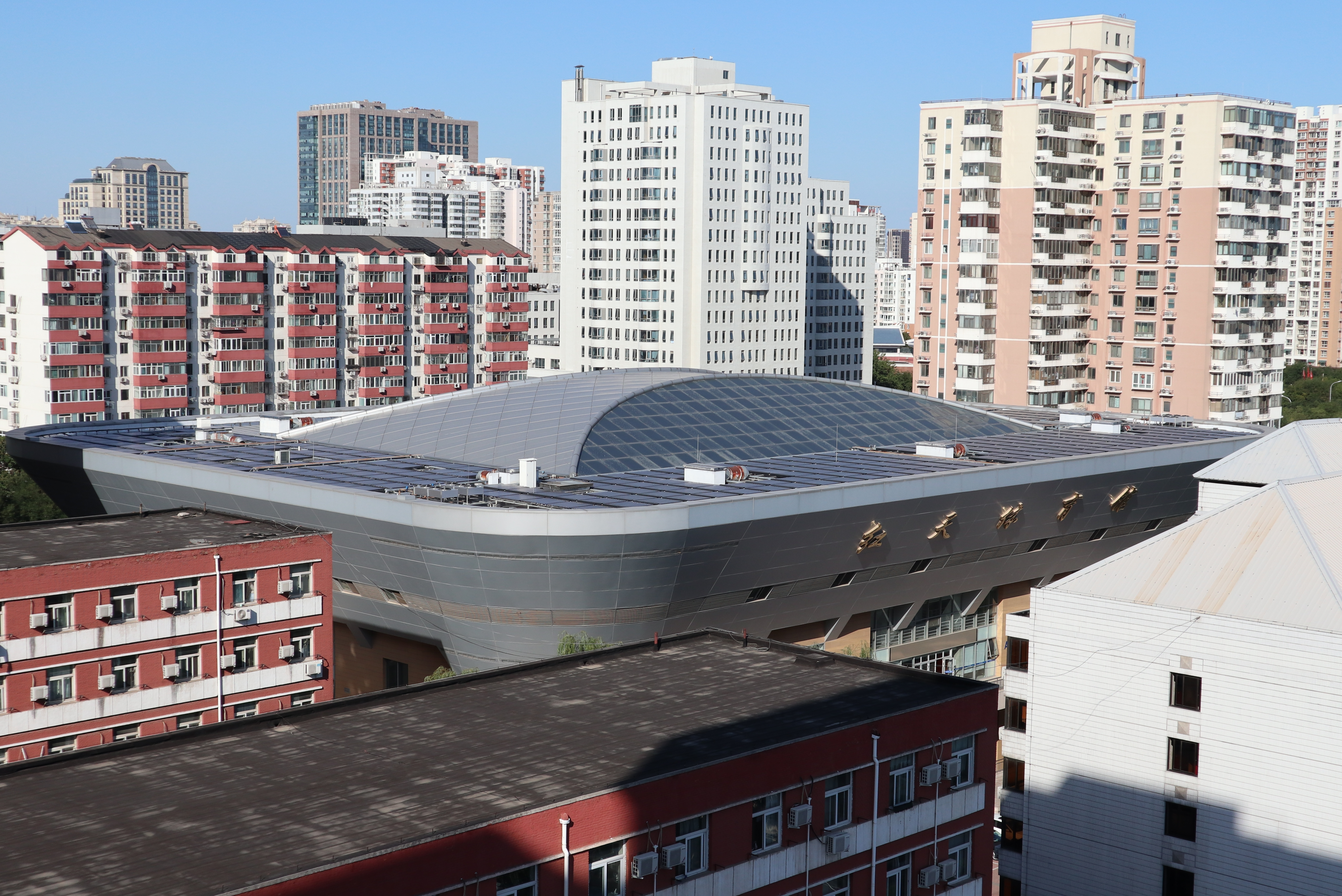 Hongtian Gymnasium in UIBE, donated by the alumnus Chen Hongtian.